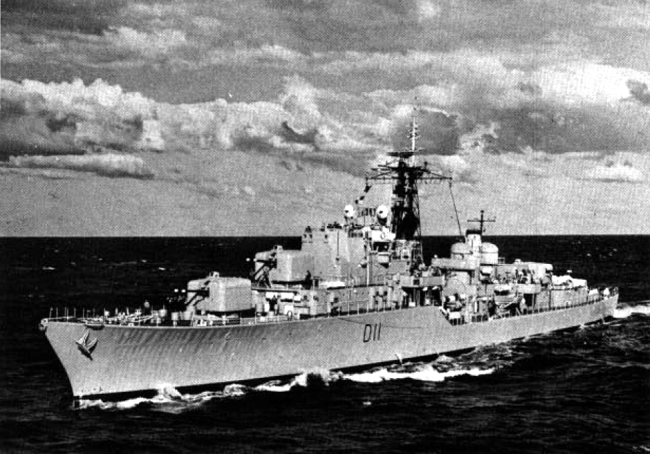 The Australian destroyer HMAS Vampire (D11) underway, circa 1962.